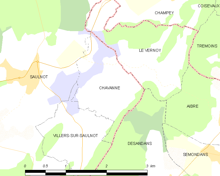 Map of French municipality